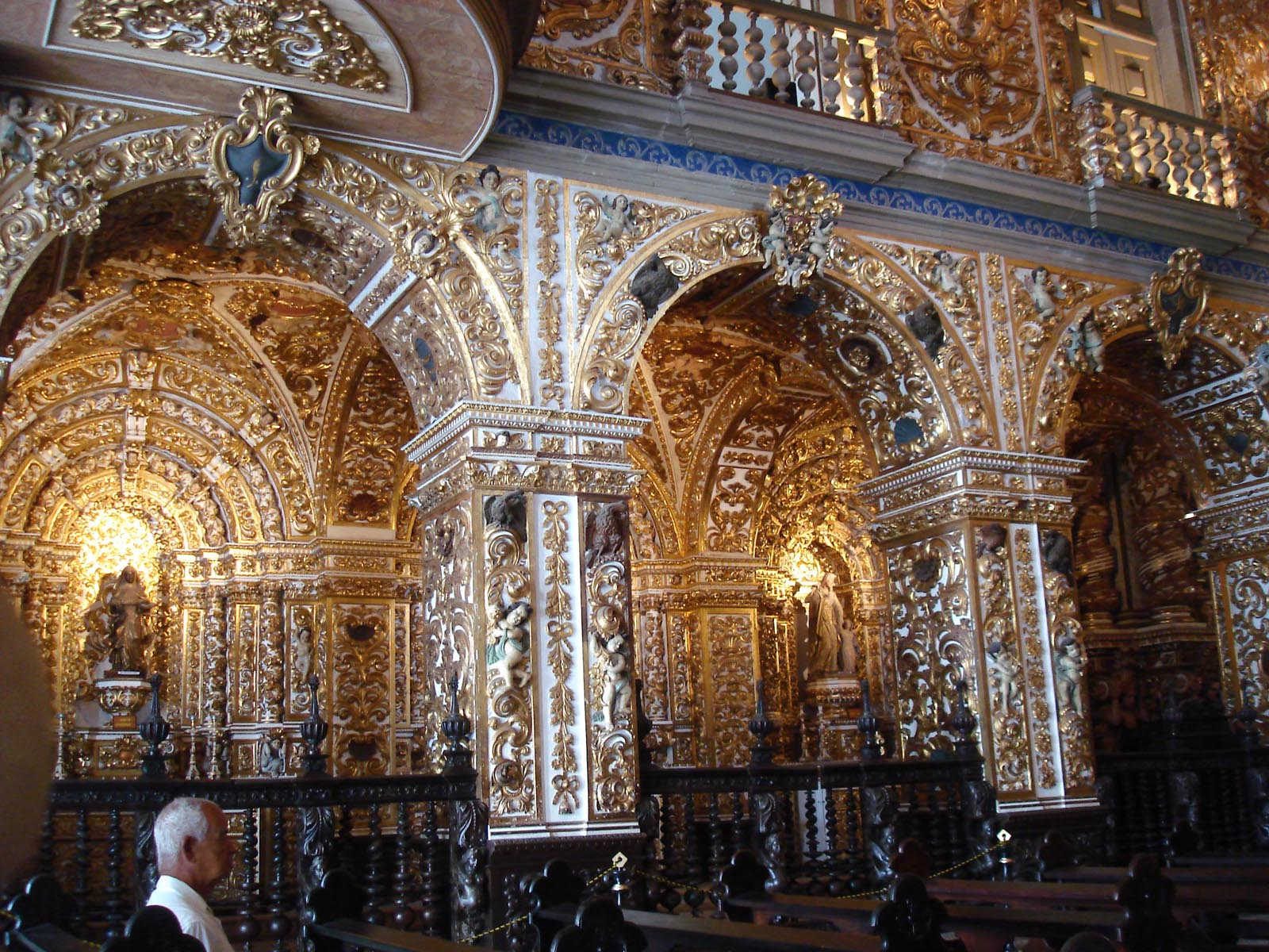 Interior of Sao Francisco Church in Salvador, Bahia, Brazil